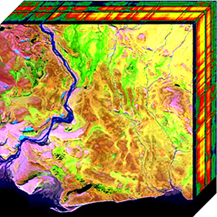 Graphic representation of hyperspectral data.